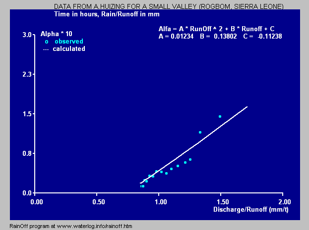 Relation between reaction factor alpha of a non-linear reservoir model and runoff, Rogbom valley, Sierra Leone